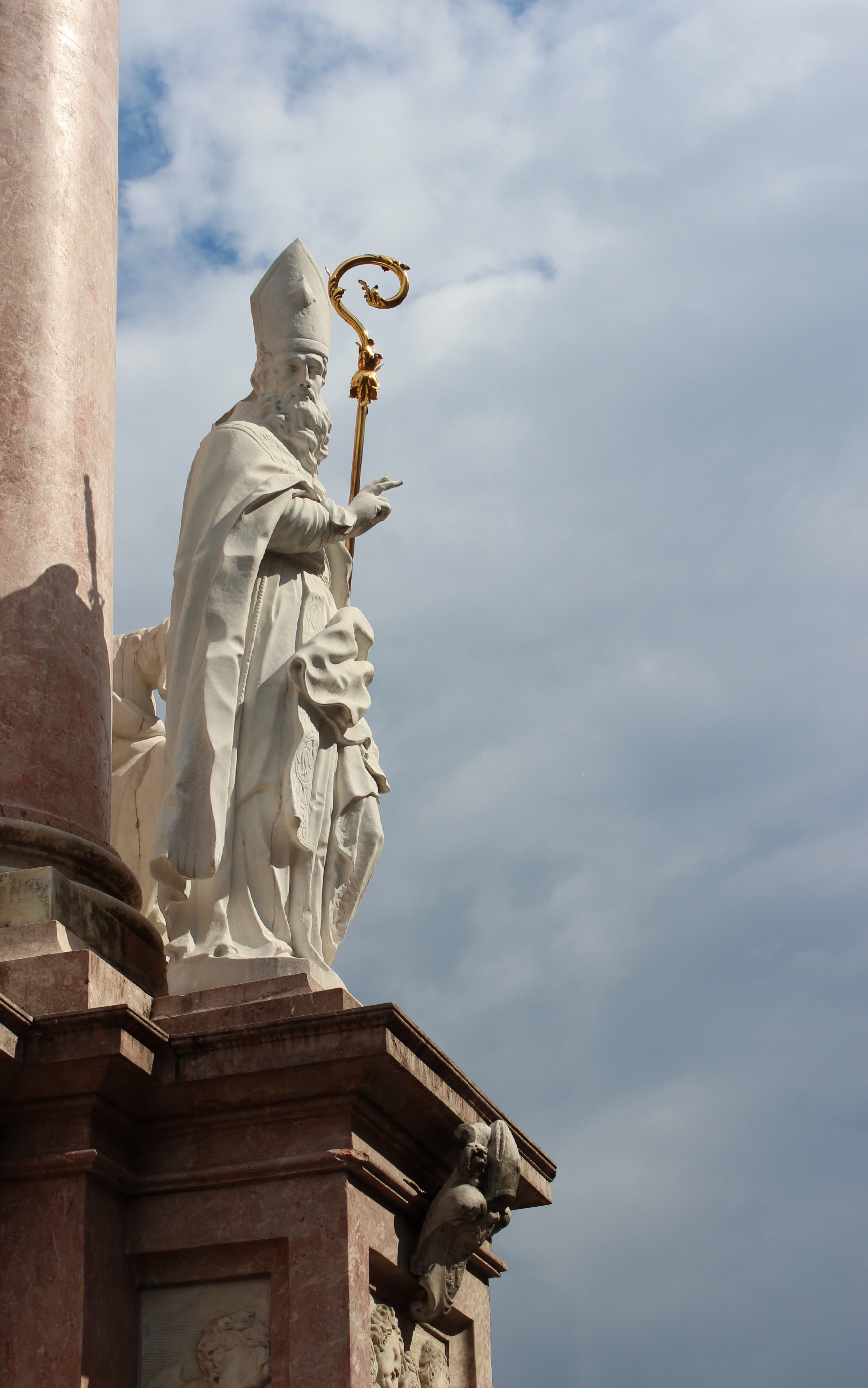 Detail of the Annasäule in Innsbruck, showing the sculpture of Cassian of Imola.